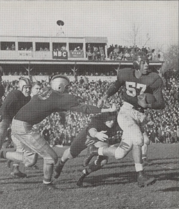 Photograph of Indiana football player Mel Groomes (No. 57) running with ball against Purdue in 1945